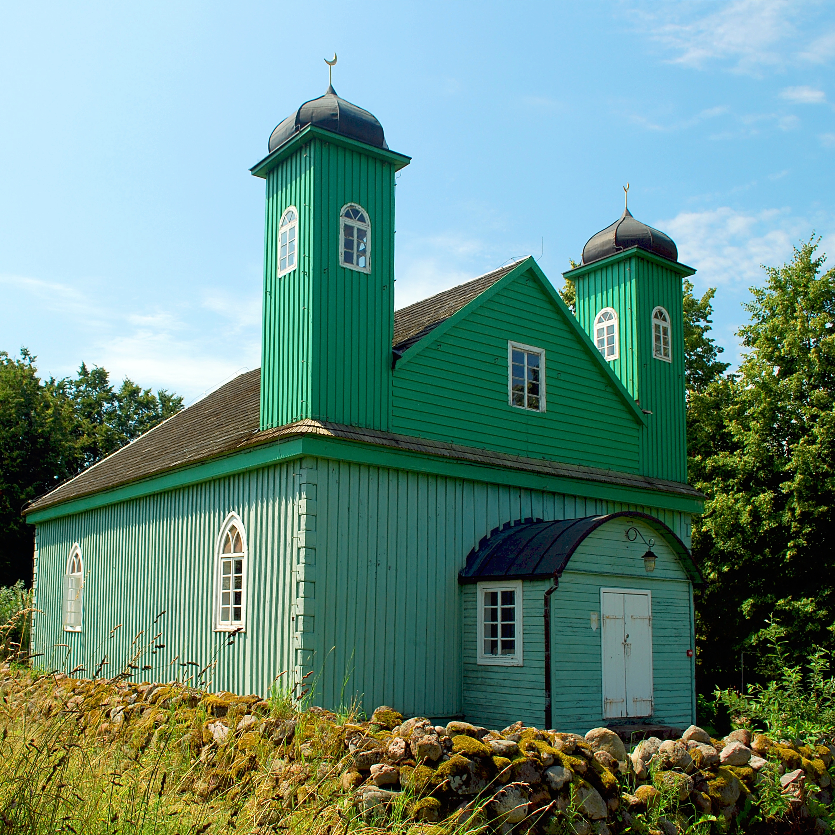 This photo from Podlaskie Voievodeship was taken during Polish Wikiexpedition 2009 set up by Wikimedia Polska Association. The making of this document was supported by Wikimedia Polska. Meczet w Kruszynianach.